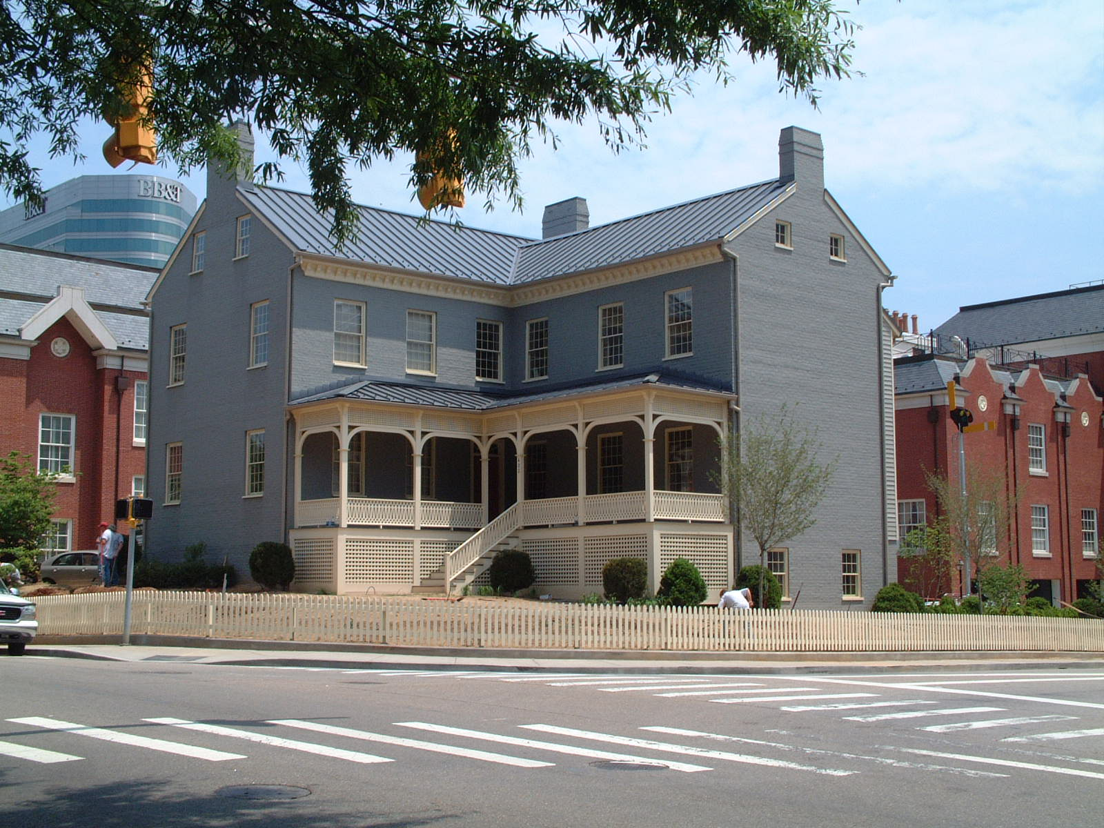 View of James Park House from Cumberland and Walnut in Knoxville, Tennessee, USA.